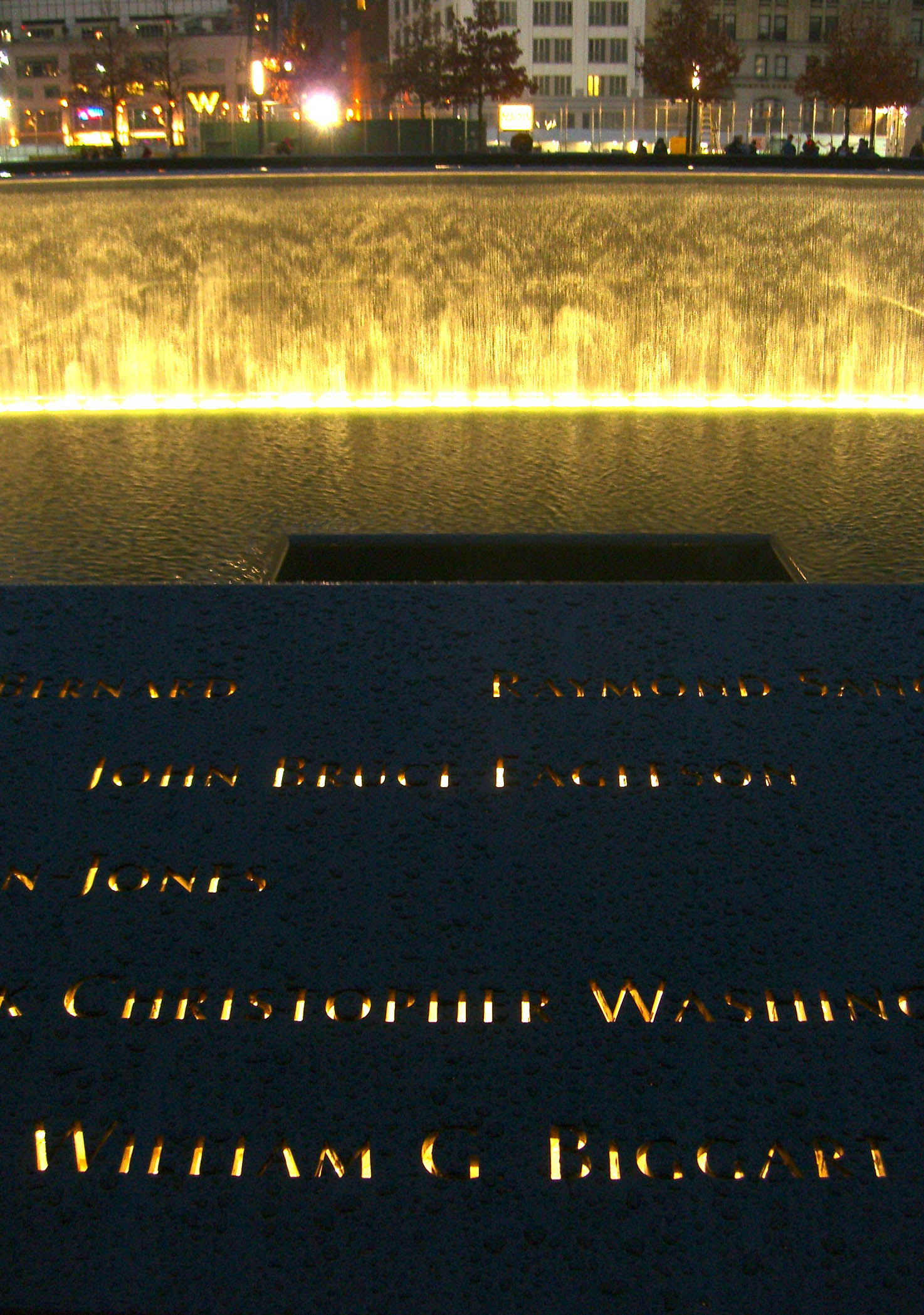 The name of Bill Biggart is seen among those of other 9/11 victims from American Airlines Flight 77, inscribed on bronze panel S-66 of the South Pool of the National September 11 Memorial in Manhattan, on December 6, 2011. This photo was created by Luigi Novi. If you have any questions, you can contact me by sending me an email or User talk:Nightscream